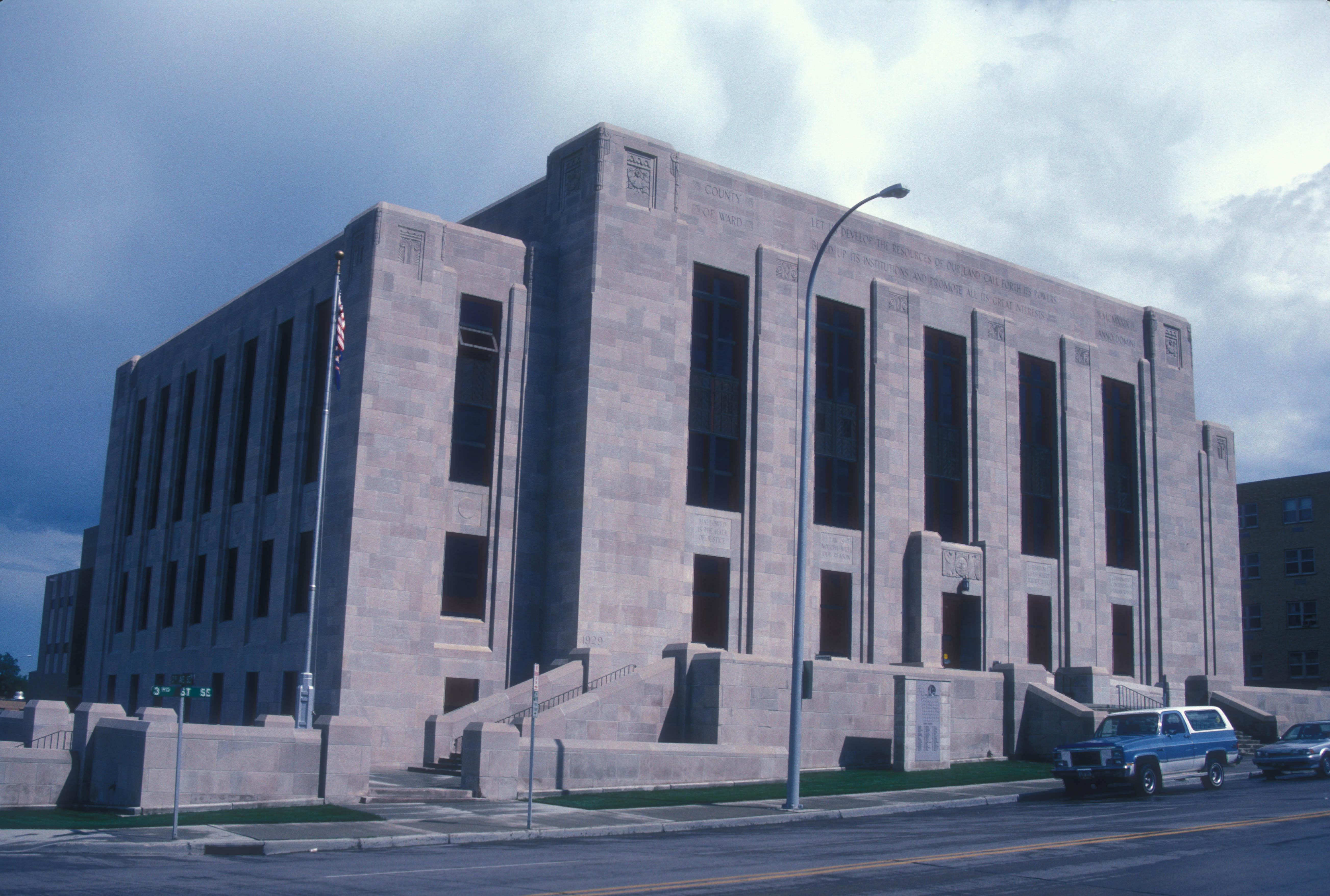 MODERN ART DECO BUILT IN 1929